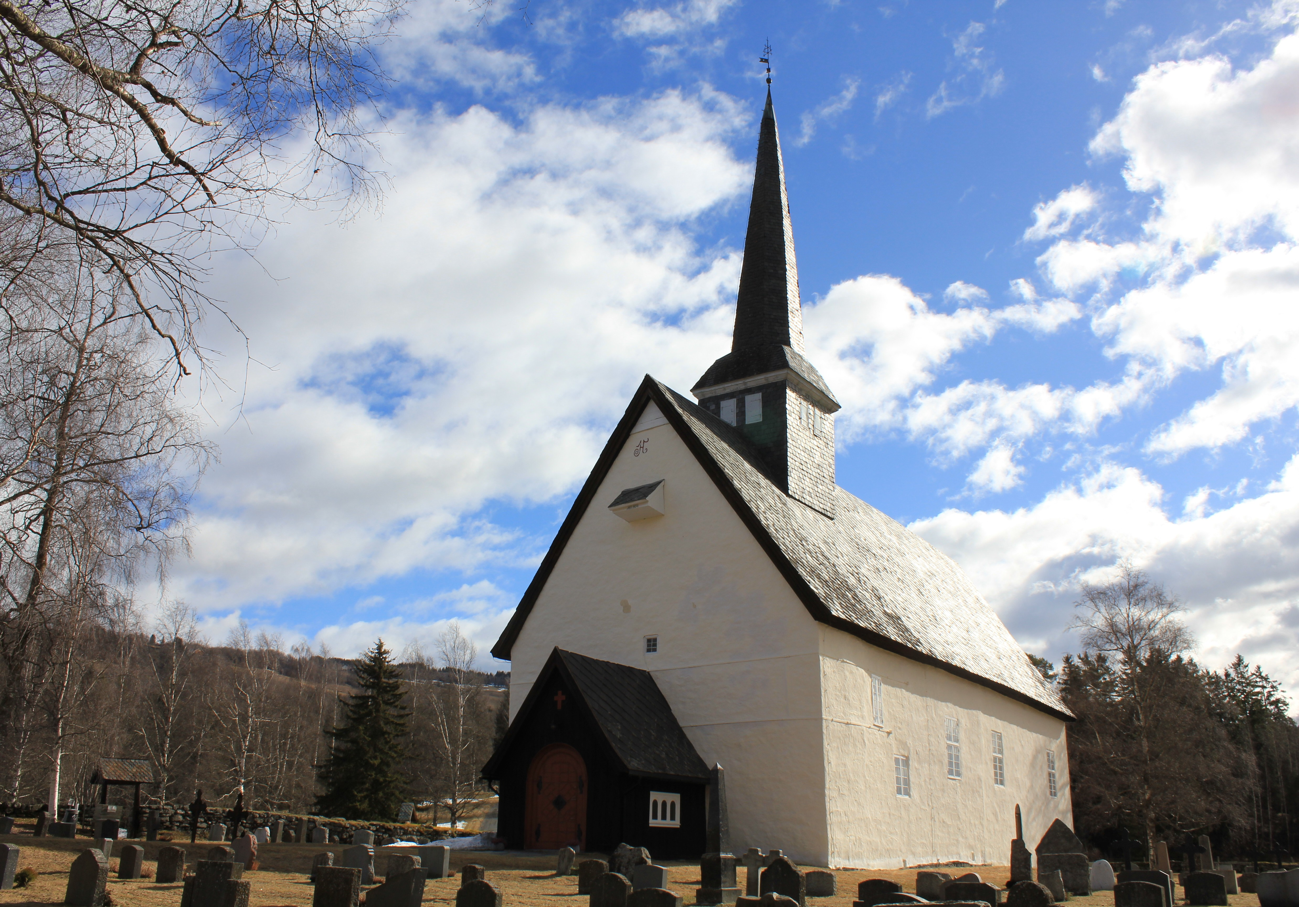 Østre Gausdal Church, Oppland, Norway.